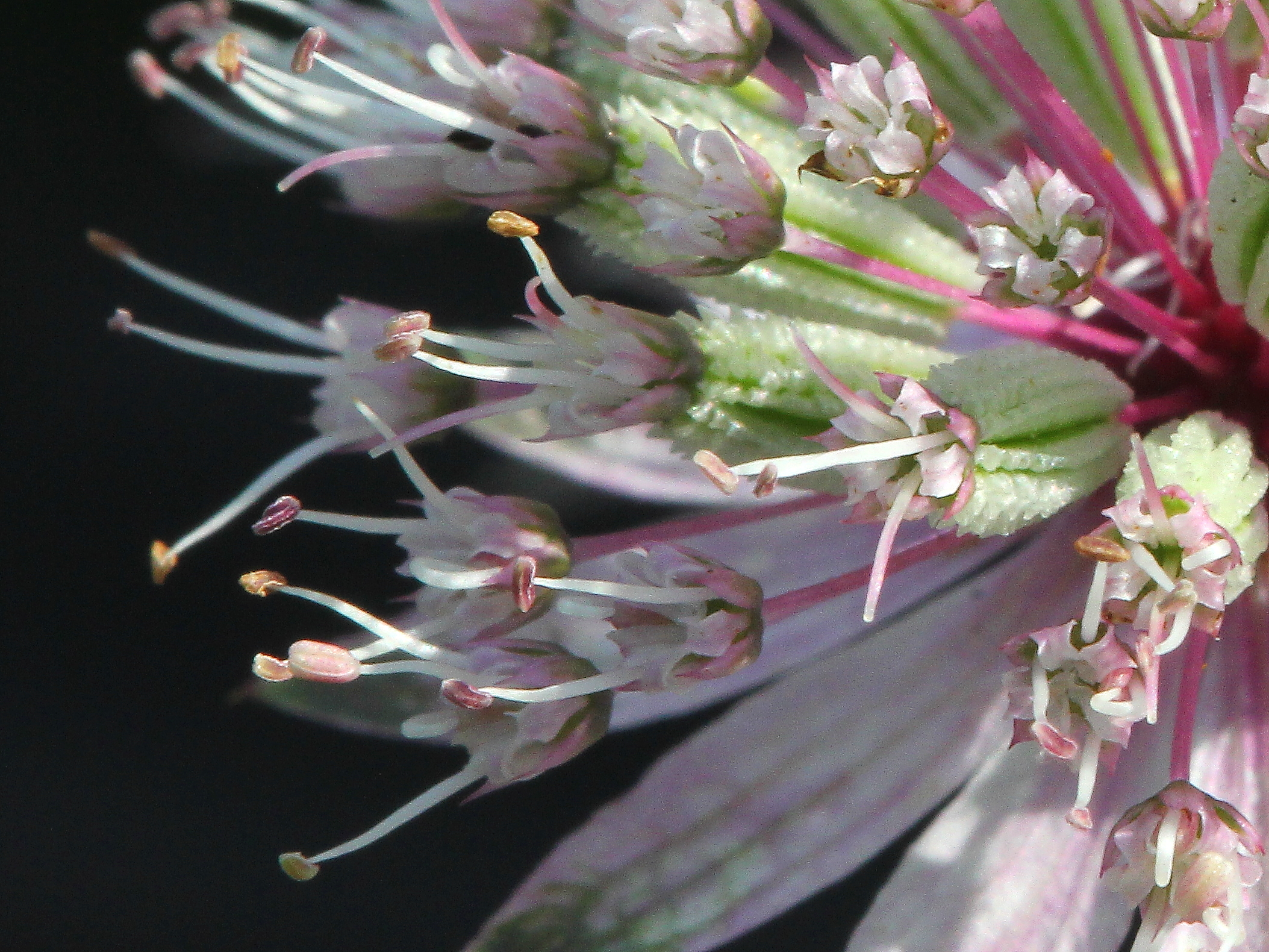 Close-up of individual blossoms of the Great Masterword, picture taken in private garden